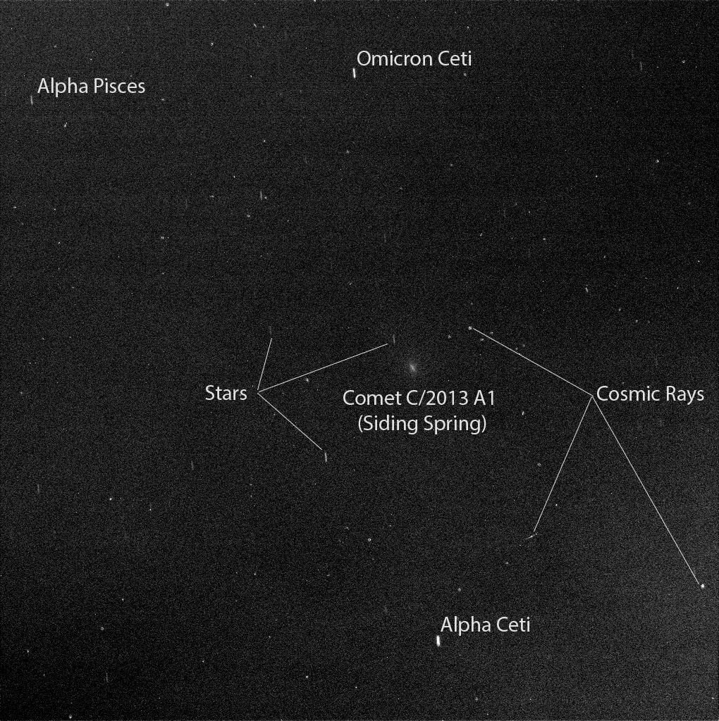 October 20, 2014 Mars Rover Opportunity's View of Passing Comet Researchers used the Pancam on NASA's Mars Exploration Rover Opportunity to capture this view of comet C/2013 A1 Siding Spring as it flew near Mars on Oct. 19, 2014. Researchers used the panoramic camera (Pancam) on NASA's Mars Exploration Rover Opportunity to capture this view of comet C/2013 A1 Siding Spring as it passed near Mars on Oct. 19, 2014. This image is from a 50-second exposure taken about two-and-a-half hours before the closest approach of the comet's nucleus to Mars. The sky was still relatively dark, before Martian dawn. At the time of closest approach, the morning sky was too bright for observation of the comet. The comet, some nearby stars, and some effects of cosmic rays hitting the camera's light detector are labeled. Figure A is an unannotated version of the image. The image has been processed by removal of detector artifacts and slight twilight glow. The duration of the exposure resulted in a 12.5-pixel smear from rotation of Mars. The smear for the comet is at a slightly different angle from the others, due to the comet's own motion across the sky. A Martian dust storm to the west of Opportunity hampered visibility somewhat on Oct. 19, compared to the sky over Opportunity a week earlier. For more information about comet Siding Spring